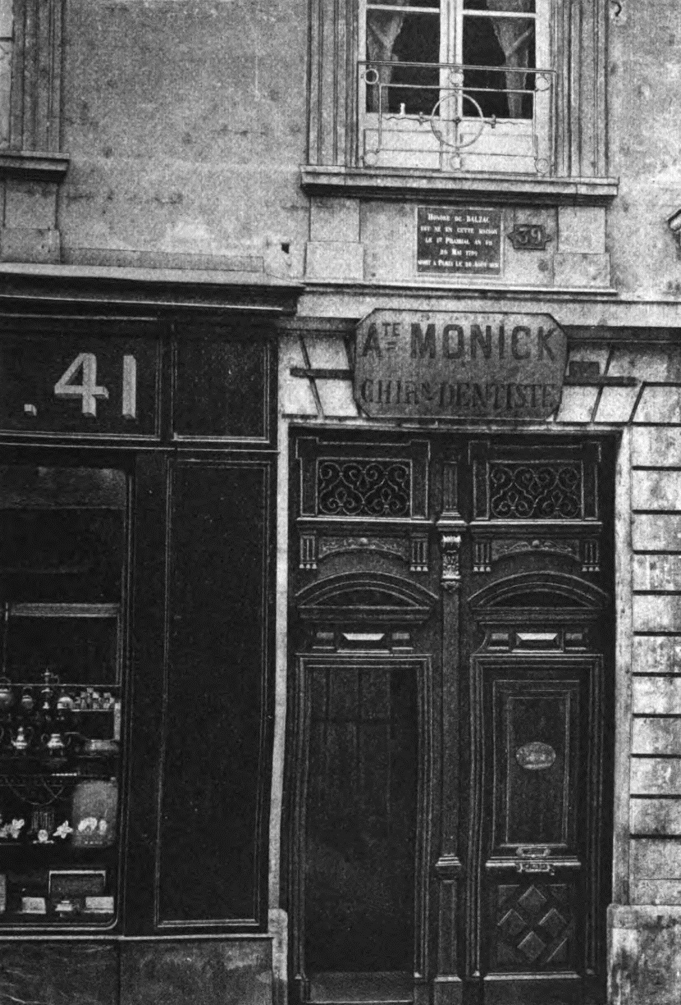 House at Tours in which Balzac was born